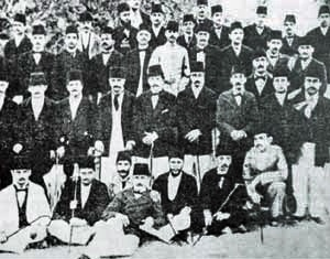 First congress of the Ottoman opposition (Young-Turks) in Paris, in 1902.